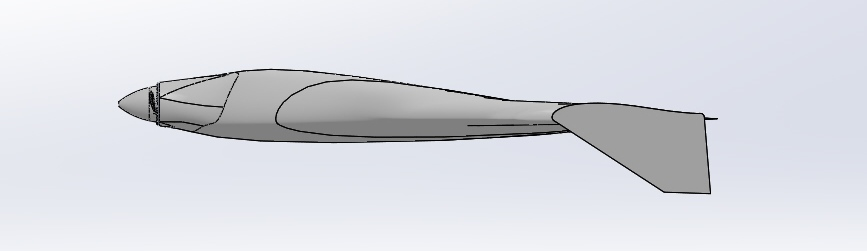 UAV Columba